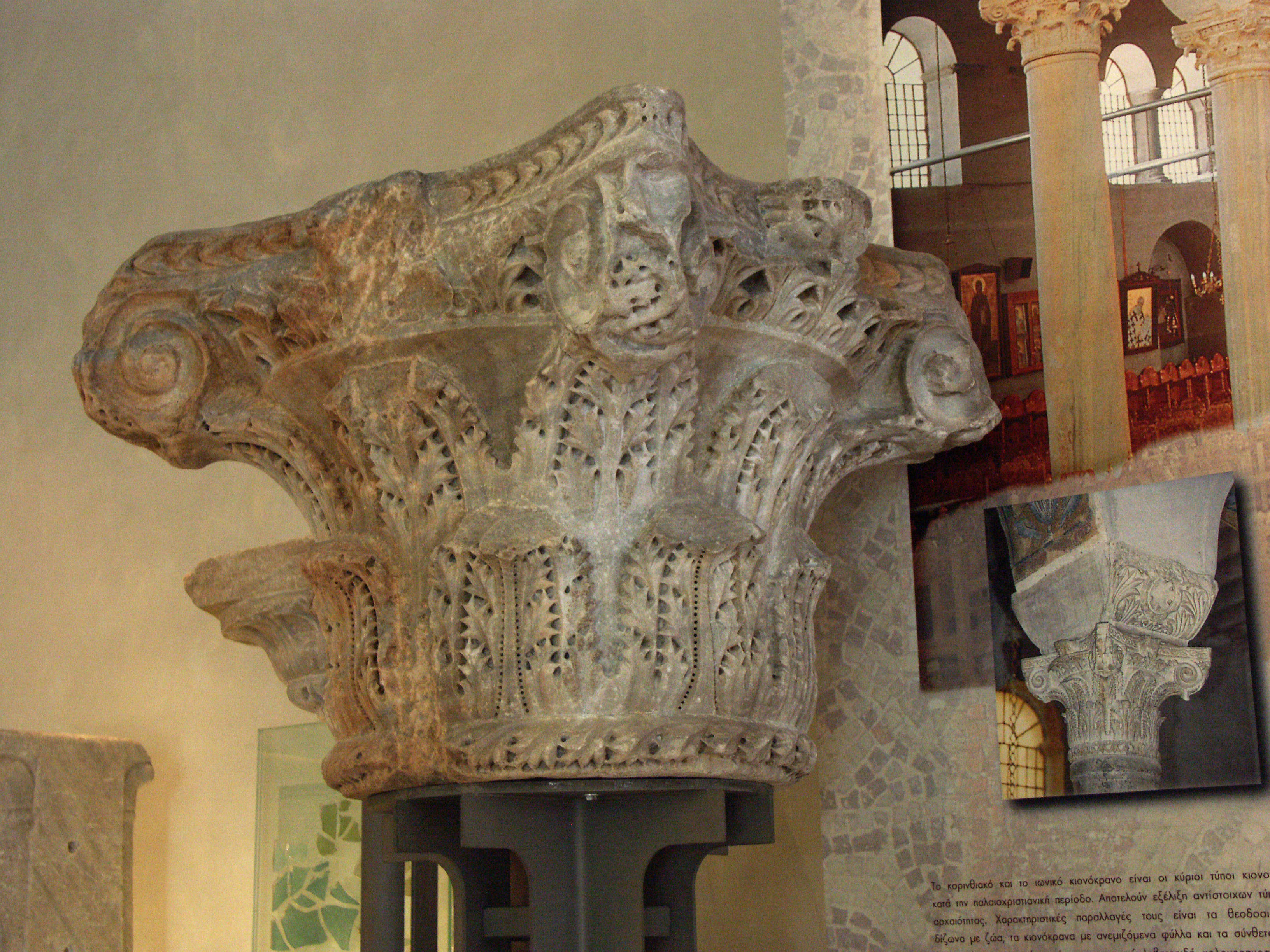 Theodosian capital from the atrium of Acheiropoietos Church, Thessaloniki, mid 5th c.